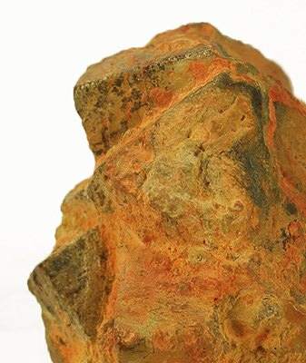 Masuyite, Uraninite Locality: Shinkolobwe Mine (Kasolo Mine), Shinkolobwe, Central area, Katanga Copper Crescent, Katanga (Shaba), Democratic Republic of Congo (Zaïre) (Locality at ) Size: miniature, 4.9 x 3.2 x 1.9 cm Masuyite on Uraninite Microcrystalline and acrystalline masuyite (TYPE LOCALITY) here occurs very richly, in unusual concentration in fact, coating sharp crystals of cubic uraninite (to about 1 cm). I could not explain why the normally more common uranium species uraninite is so rare from this locality which produces so many other uranium minerals but an expert told me the following: The fact that Uraninite crystals are rare in Shinkolobwe is in first place that there where very few cavities where the mineral could cristalise.Where cristallisation was possible, the ground water washed the crystals away. Uranium is one of the most mobile elements so weathering is easy.